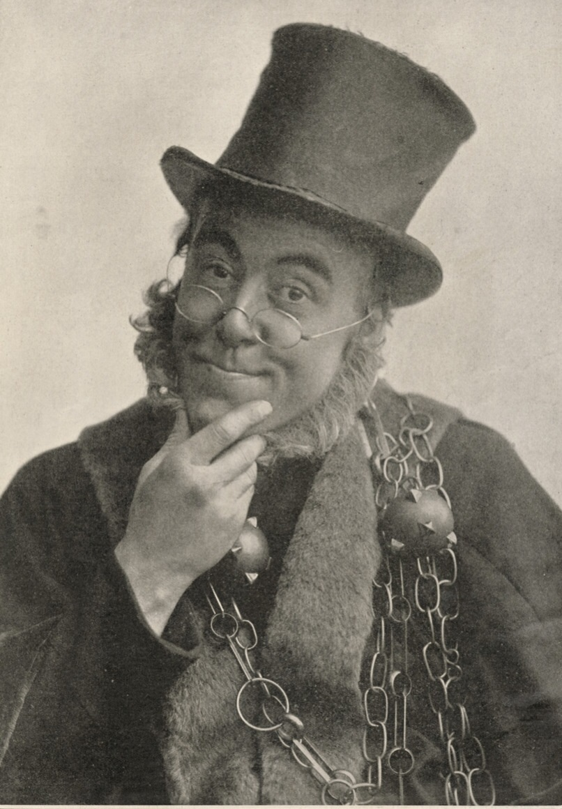 George Robey as a Mayor in The Sketch magazine, 18 May 1904.